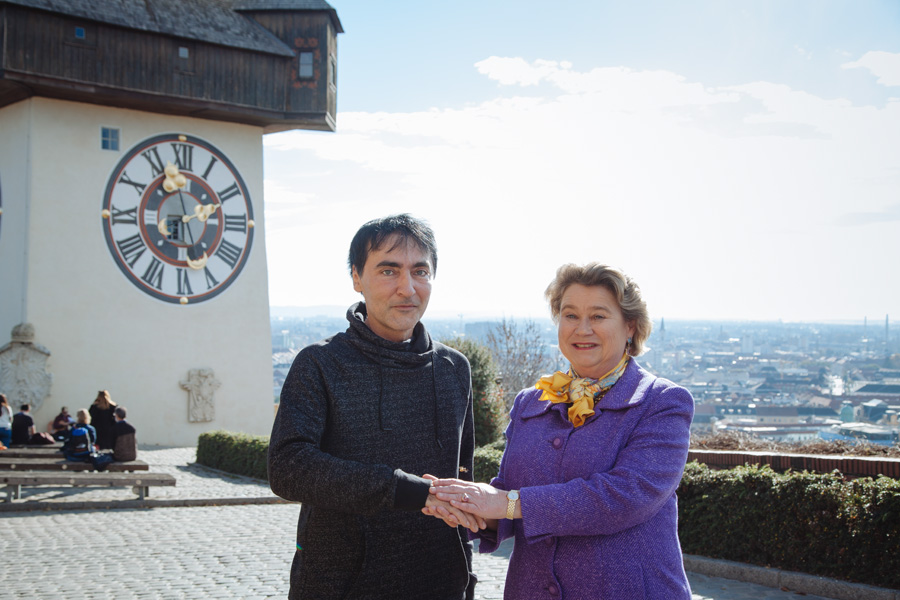 The Handshake 4 Peace: Anita Hohenberg (great-granddaughter of Franz Ferdinand of Austria-Este) and Branislav Princip (grandnephew of Gavrilo Princip) met on the commemoration day 100 years of the end of the First World War on 11.11.2018 at 11:11 clock for the "Peace Gesture of the Century" initiated by Igor Friedrich Petkovic in the world peace capital Graz, Austria.